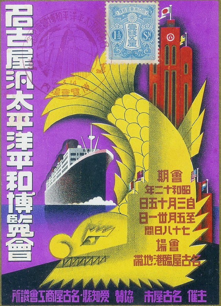 Commemorative postcard of the Nagoya Pan-Pacific Peace Expo of 1937